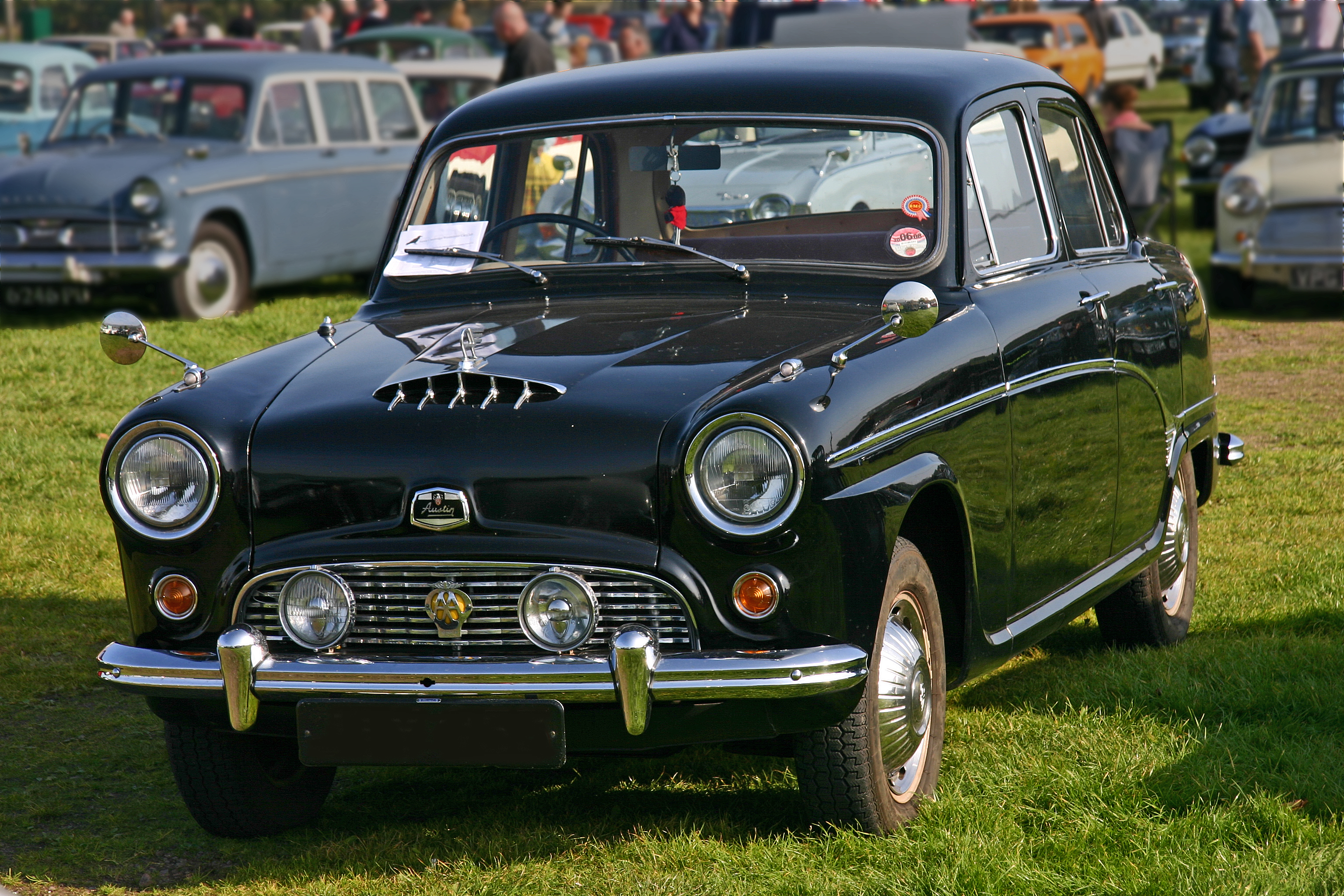 Austin A90 Westminster. Launched in 1954, the A90 replaced the A70 Hereford and used the new 2639 cc C-series BMC engine.